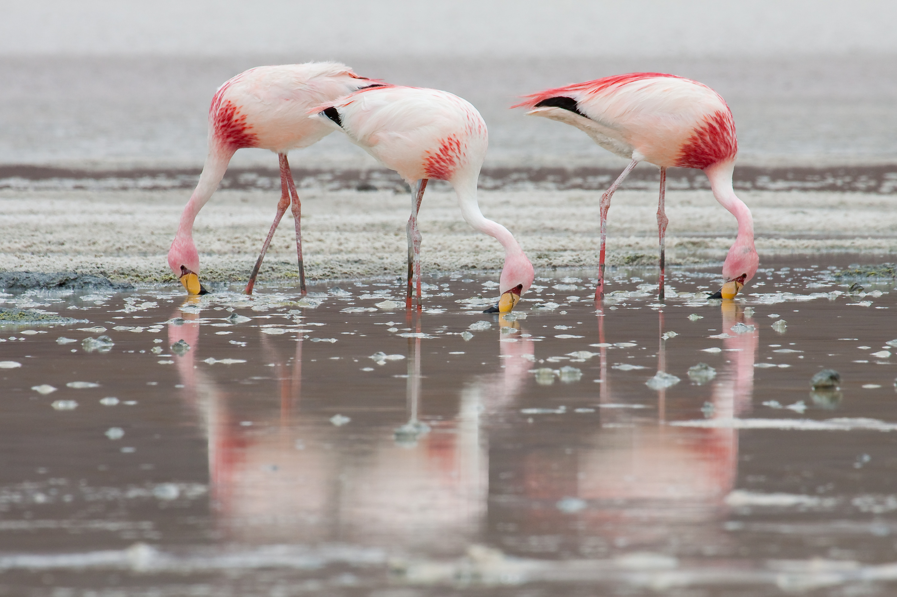 Phoenicoparrus jamesi, a group of James's Flamingos at Laguna Hedionda in Bolivia.